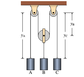 Sistema com três movimentos dependentes e dois graus de liberdade.